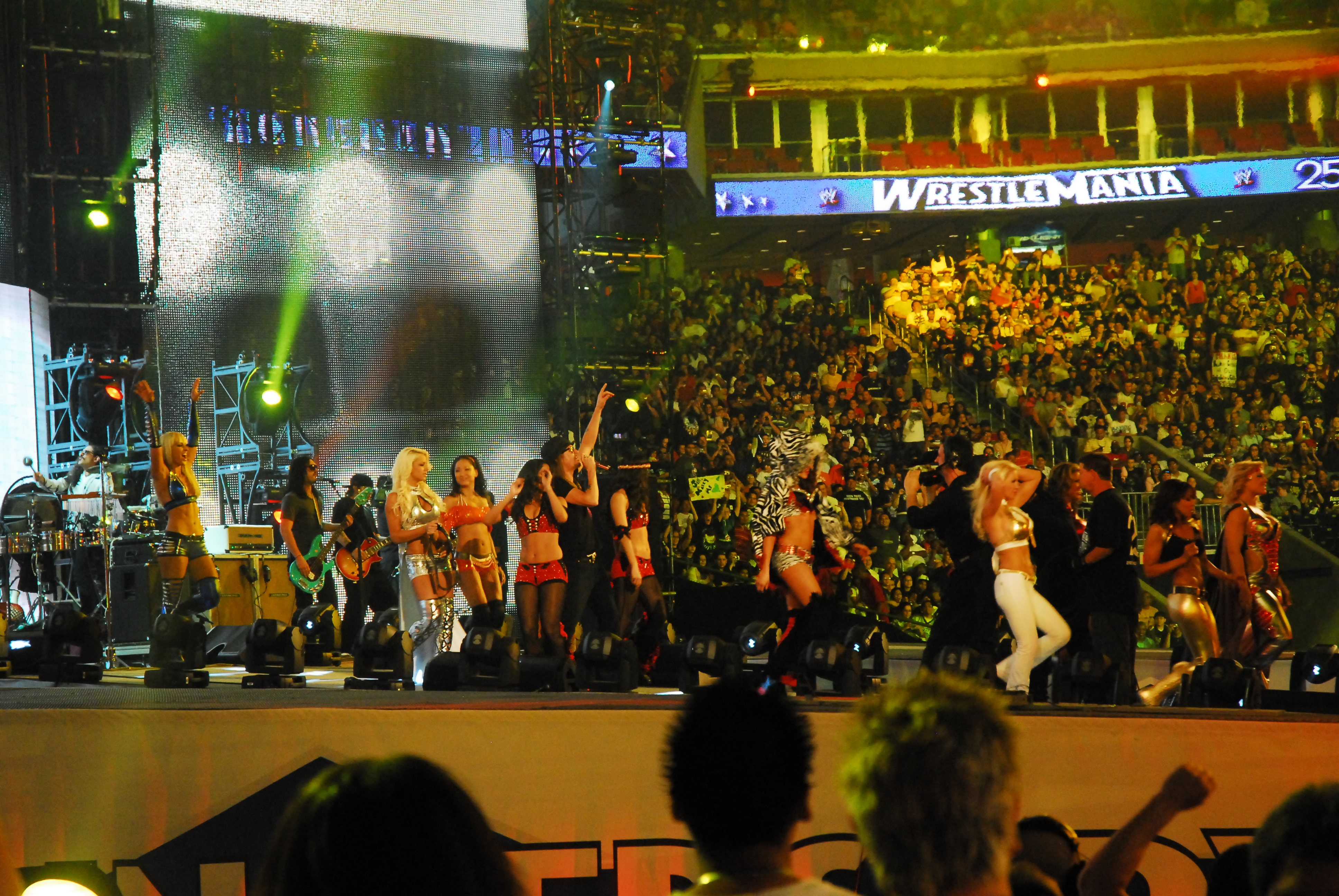 Kid Rock performing at WrestleMania 25 at Reliant Stadium in Houston, Texas on April 5, 2009. He performed during the ring entrances of the WWE Divas, who went on to compete in a battle royal. Visible in the photo are Michelle McCool (woman on the farthest left), Maryse (second woman from the left), Gail Kim (third woman from the left), The Bella Twins (on either side of Kid Rock in the center), Maria (fourth from right), Jillian Hall (third from right) Layla (second from right), and Beth Phoenix (far right).